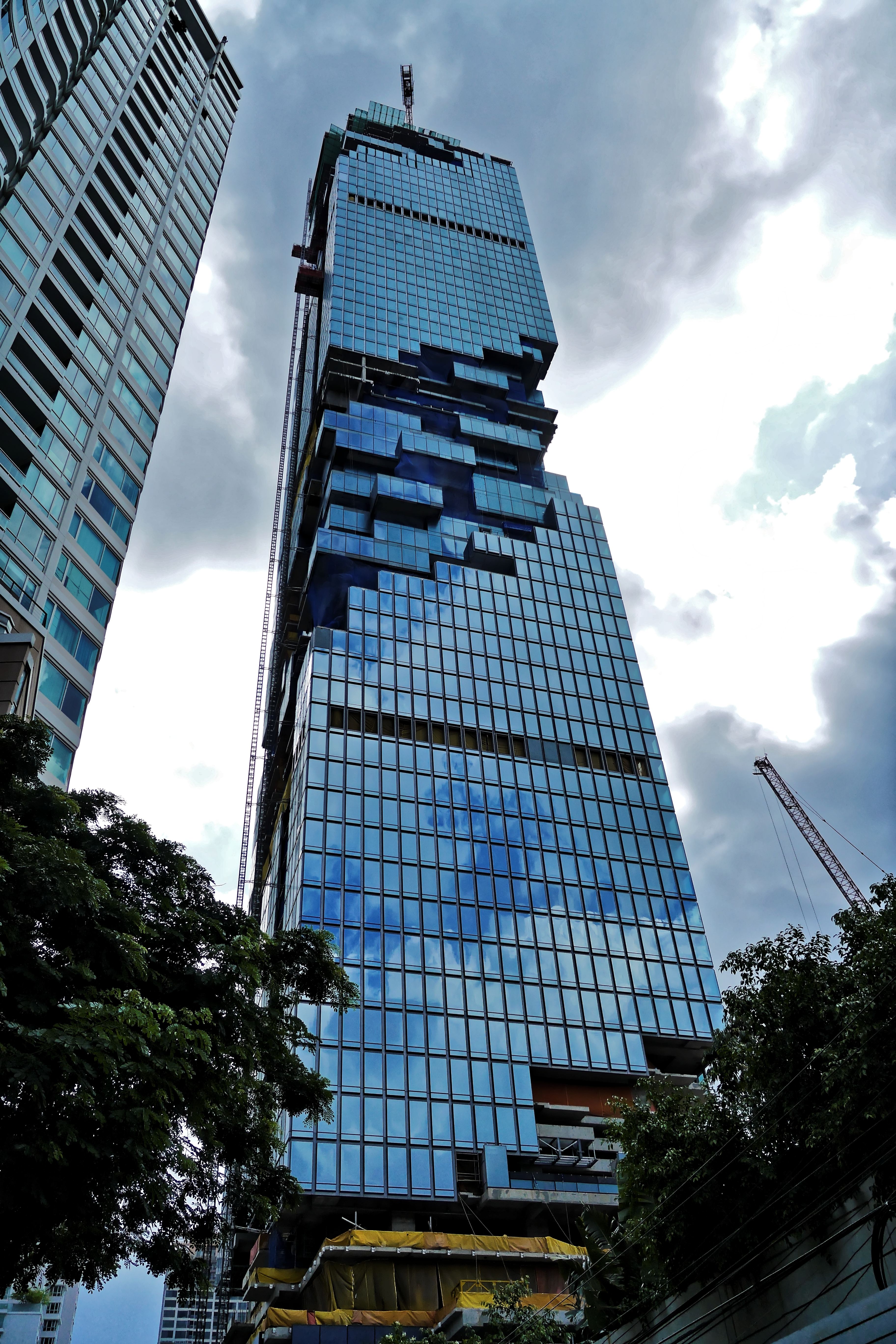 MahaNakhon is the tallest skyscraper in Bangkok. The building had been topped of, but was still under construction, when the photo was taken.